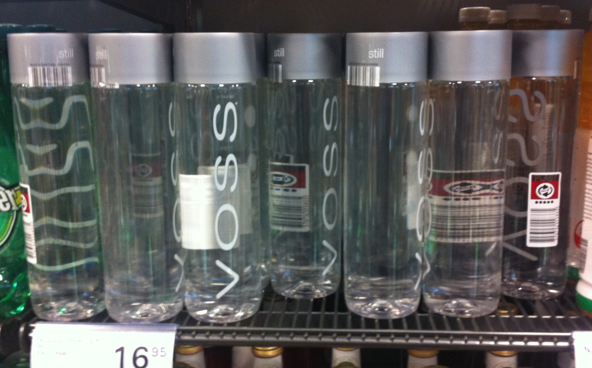 Bottles of Voss water in a Danish grocery store.